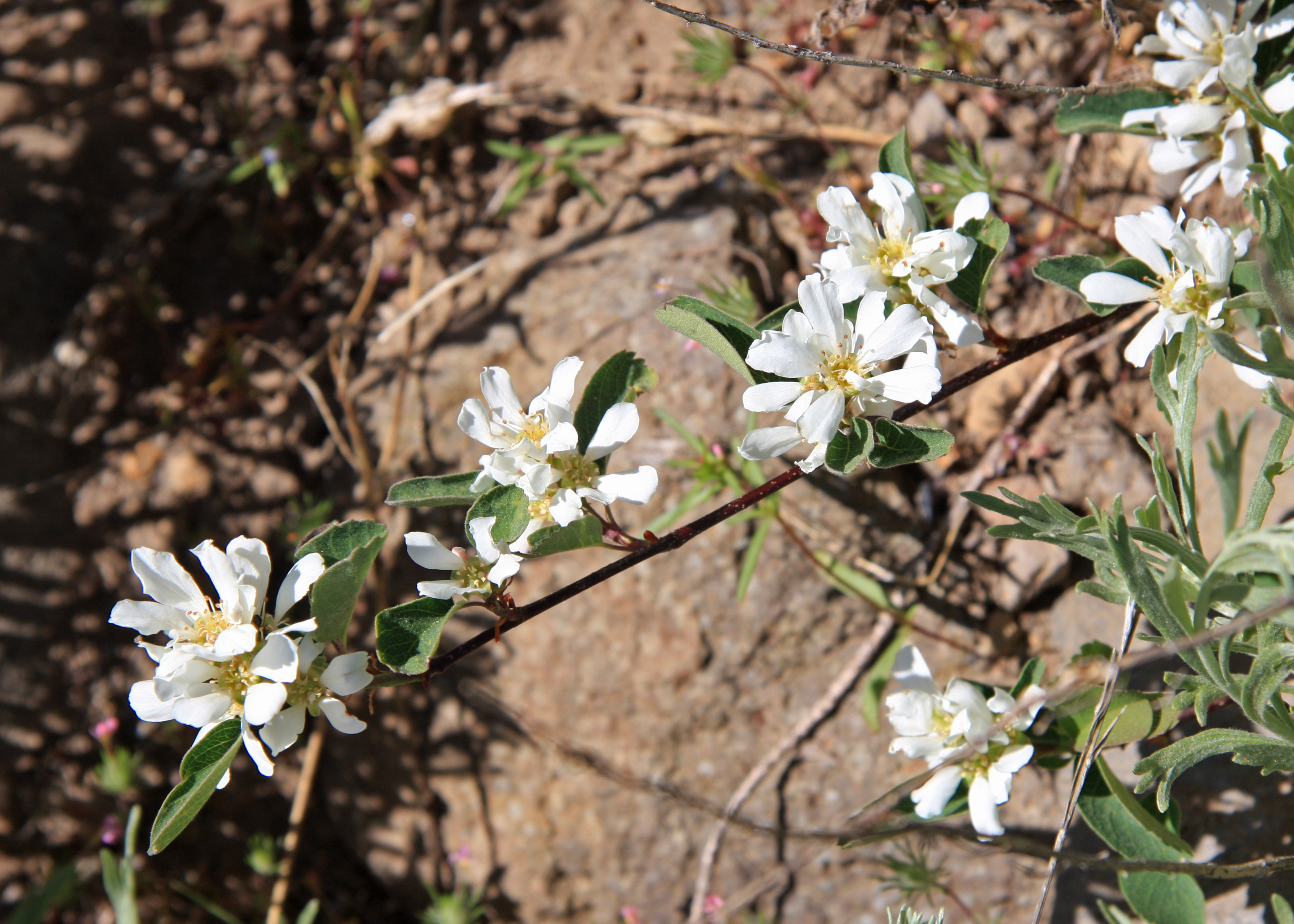 Utah serviceberry (Amelanchier utahensis), branch of generally 5-petaled white flowers with many short golden stamens, in clusters along smooth branchlet. Leaves elliptic and fairly smooth, serrate above middle. At 2,998 m (9,836 ft) along High Trail (part of Pacific Crest Trail) below Agnew Pass, Ansel Adams Wilderness, California.